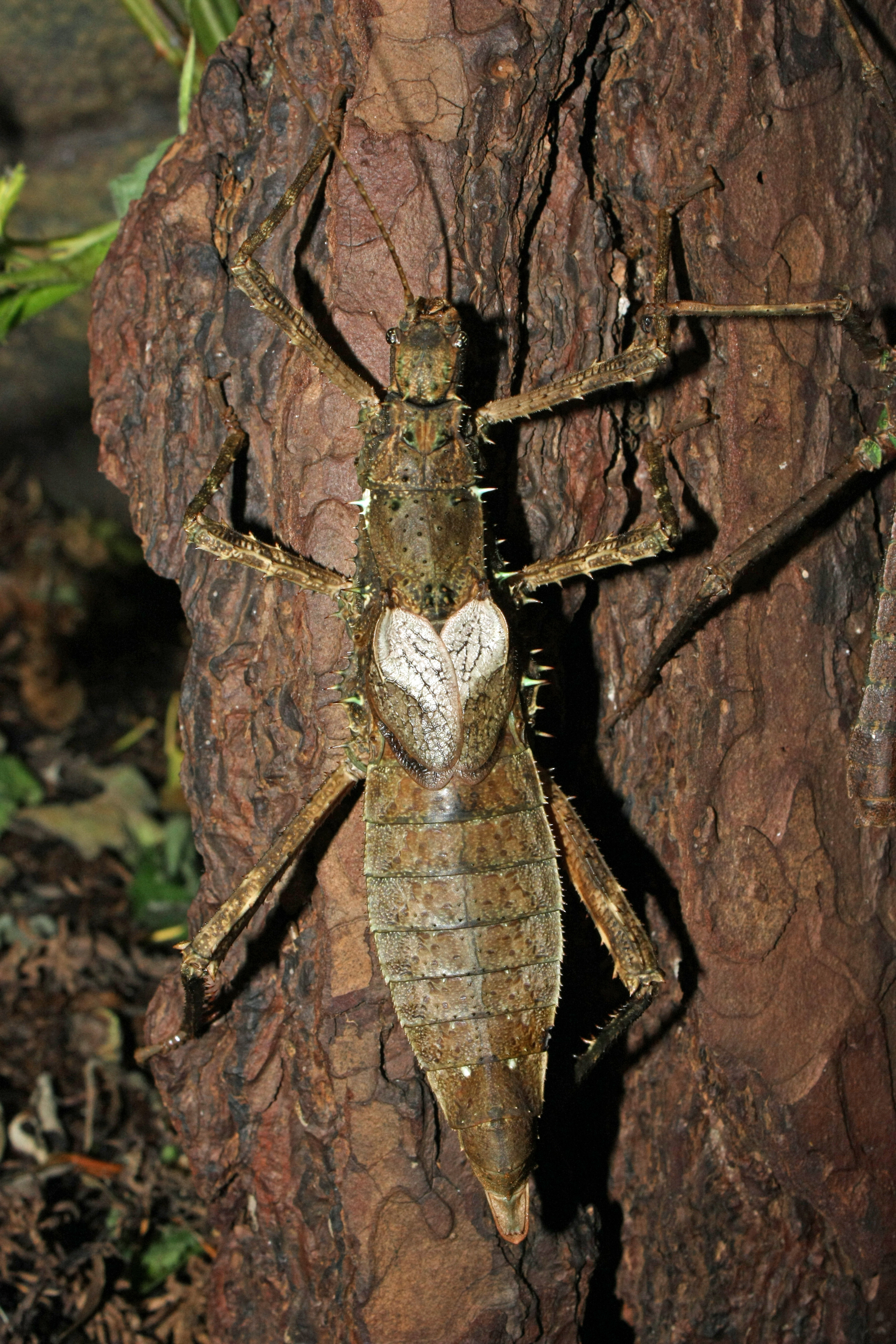 male of Prickly Haaniella (Haaniella echinata)